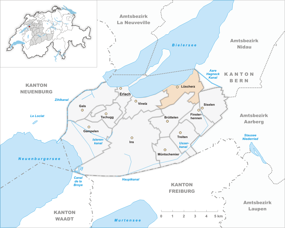 Municipality Lüscherz